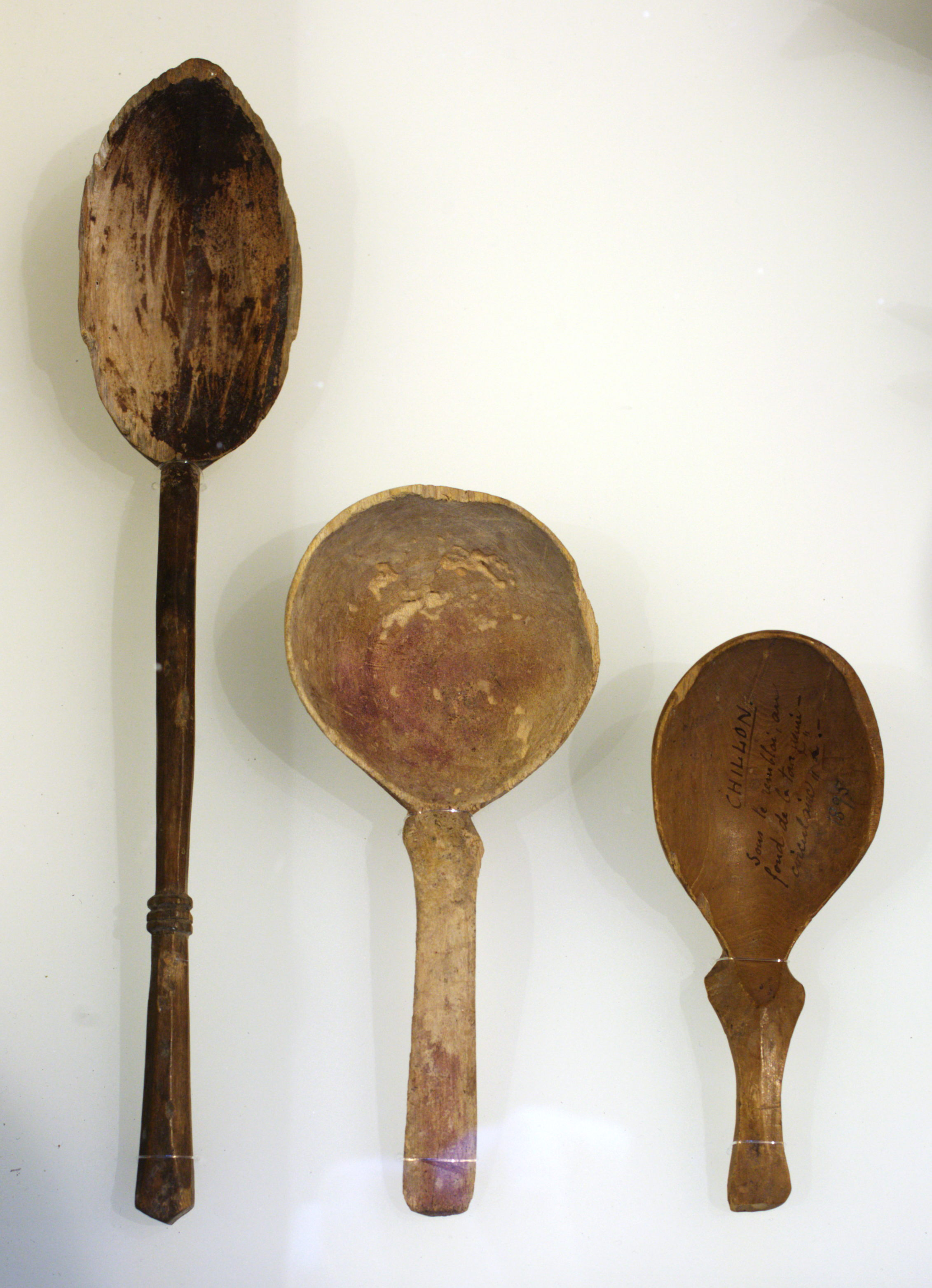 Middle Ages spoons at Château de Chillon